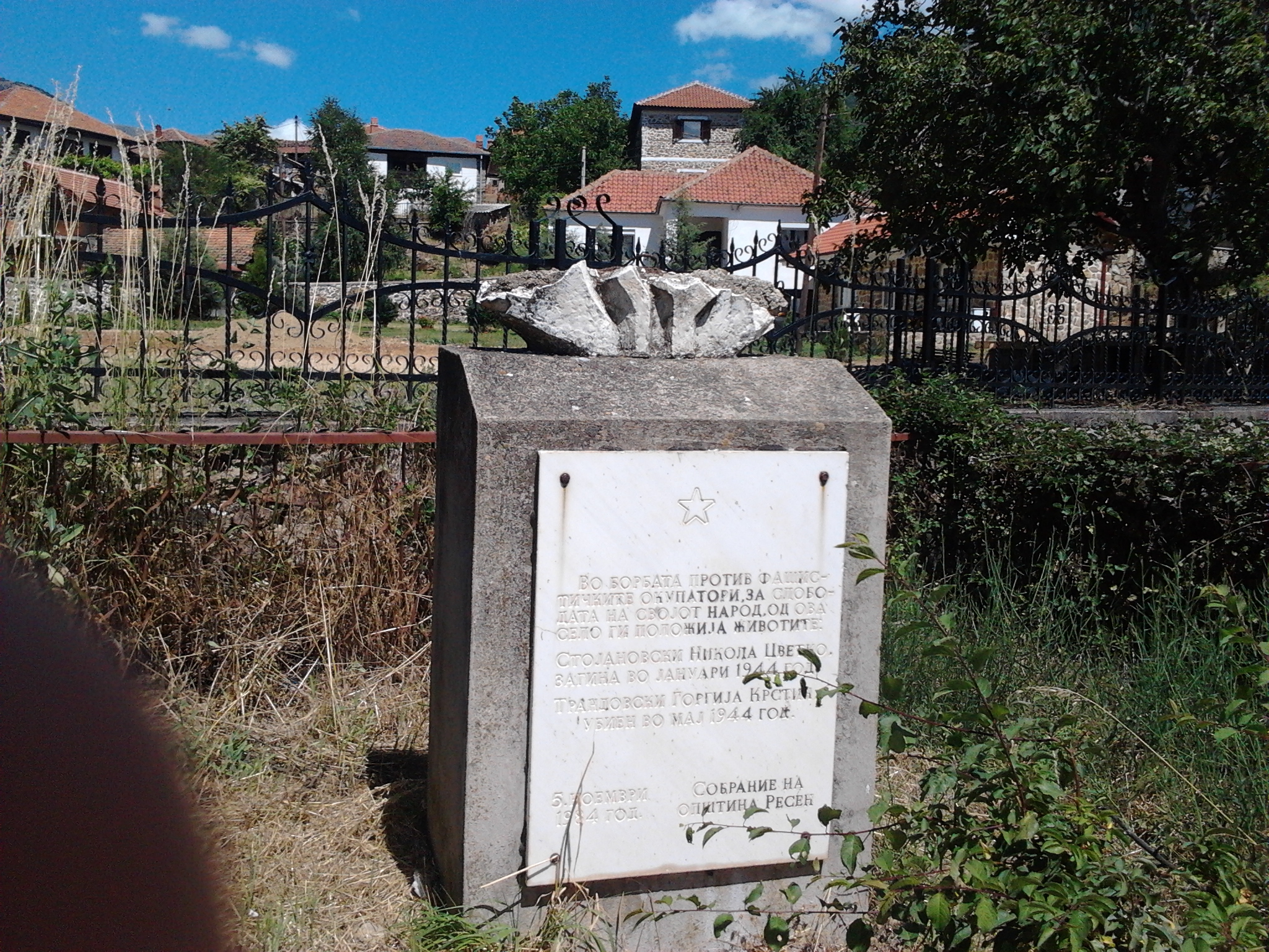 monument of the Macedonian freedom fighters from WWII in Brajchino